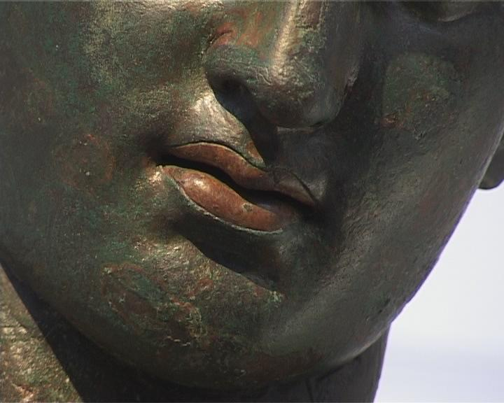 Detail of the statue of Apoxyomenos exhibited in the Archeological Museum in Zagreb